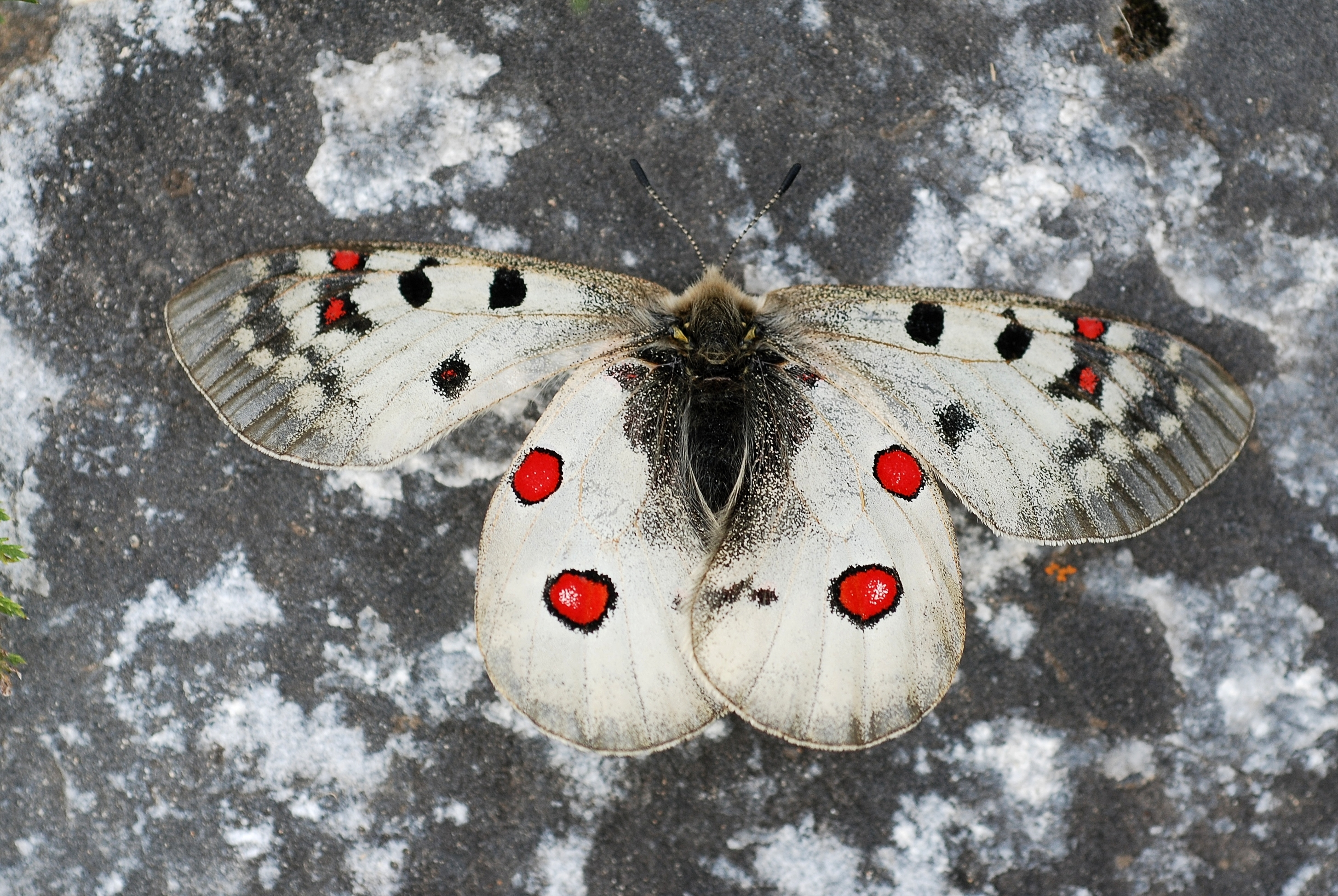 This female was dying on the ground.